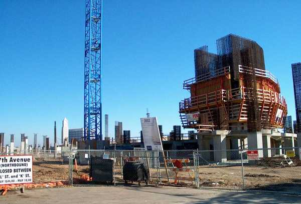 PETCO Park under construction Photo credit: User:Slowking_Man Capture date: 2001 06:40, 2 June 2004 . . Slowking Man . . 600 x 408 (34,163 bytes)